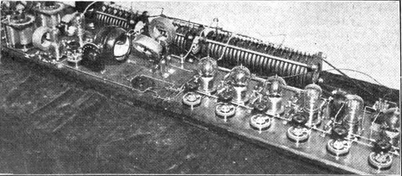 Early portable 9 vacuum tube superheterodyne radio receiver on table, 1923, showing examples of antique radio components used. Built by W. H. Blucock in England and displayed at the 1923 Radio Fair, Hotel Imperial, London, it received broadcast stations from as far away as San Fransisco. The superheterodyne circuit, used in virtually all modern radios, was invented in 1918 by Major Edwin Armstrong while he was stationed with the Signal Corps in France during World War 1. This example was built with early triode vacuum tubes. It consists of a mixer and local oscillator section (left), 5 RC-coupled IF amplifier stages and a detector (right). The low gain achievable with the triode without instability made many amplification stages necessary. The round adjustable coils (left, center) used to tune the set were called "variometers". The long cylindrical segmented component visible in the background is a "B" battery used to provide the plate voltage of 40 - 150 V. It consists of a stack of individual cells, with taps allowing the voltage to be adjusted by cutting in different numbers of cells. The intermediate frequency was probably around 50-75 kHz.